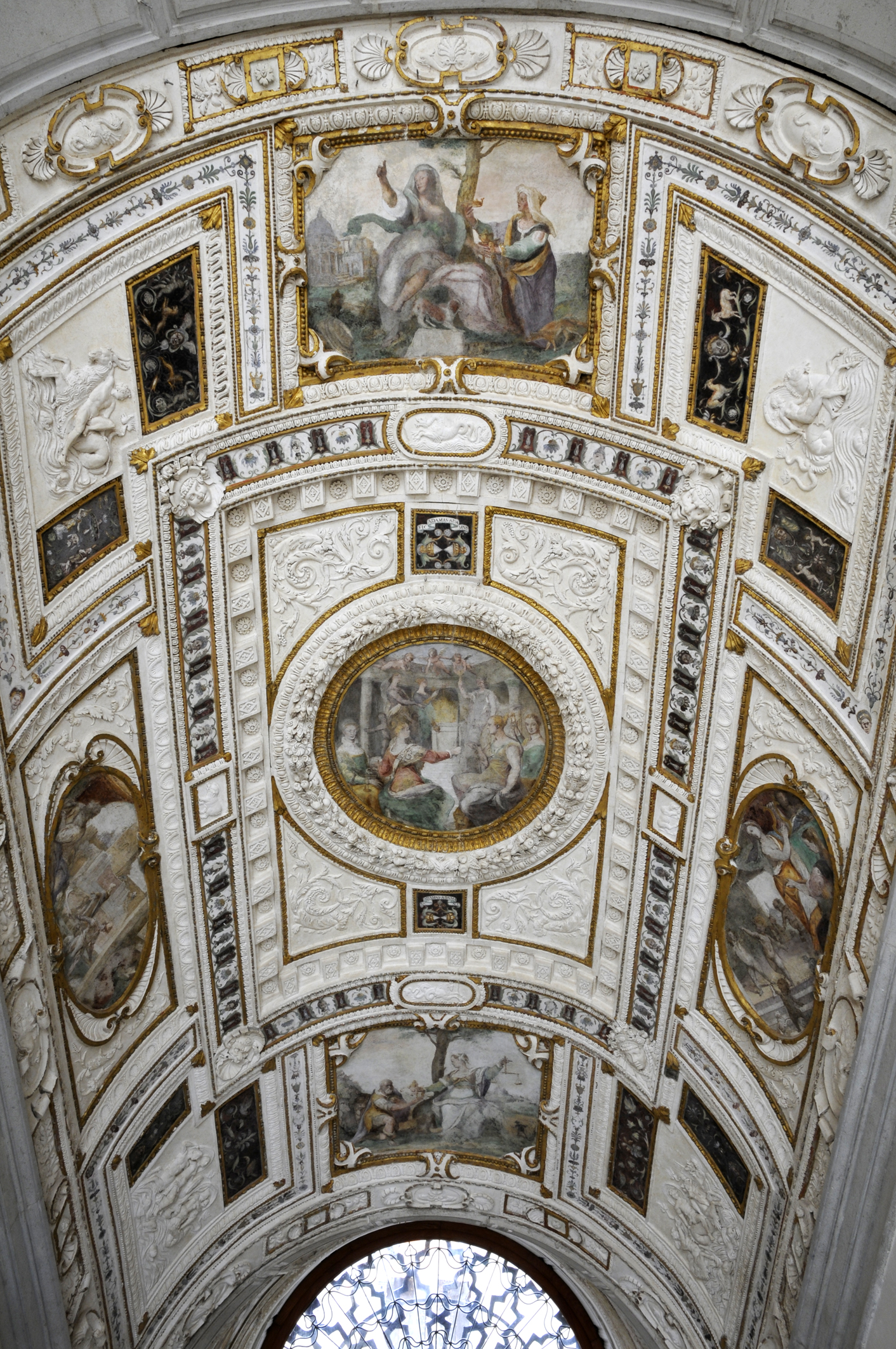 Frescos and stuccos by Federico Zuccari